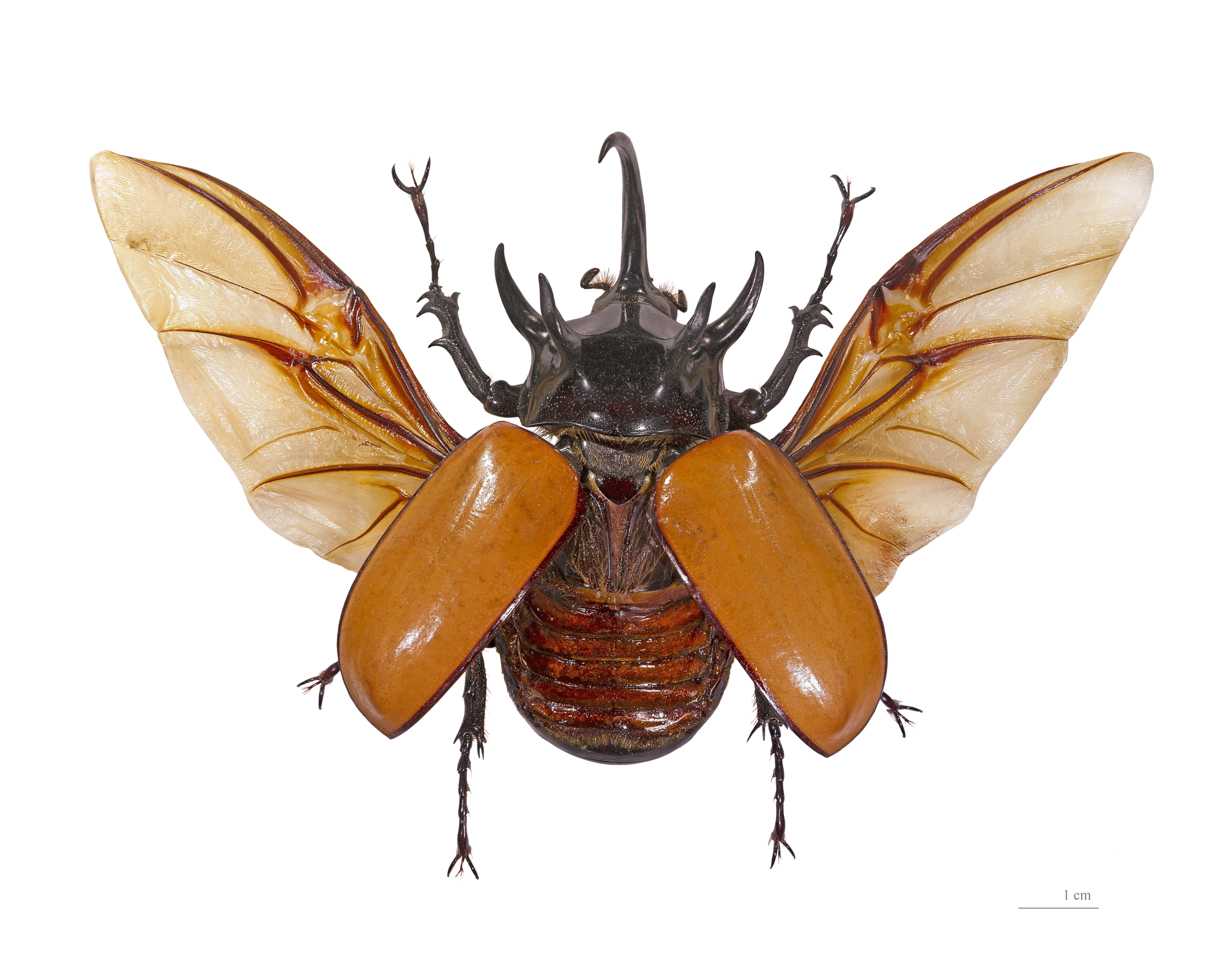 ♂ - Dorsal in flight. Locality: Chiang Rai, Thailand.